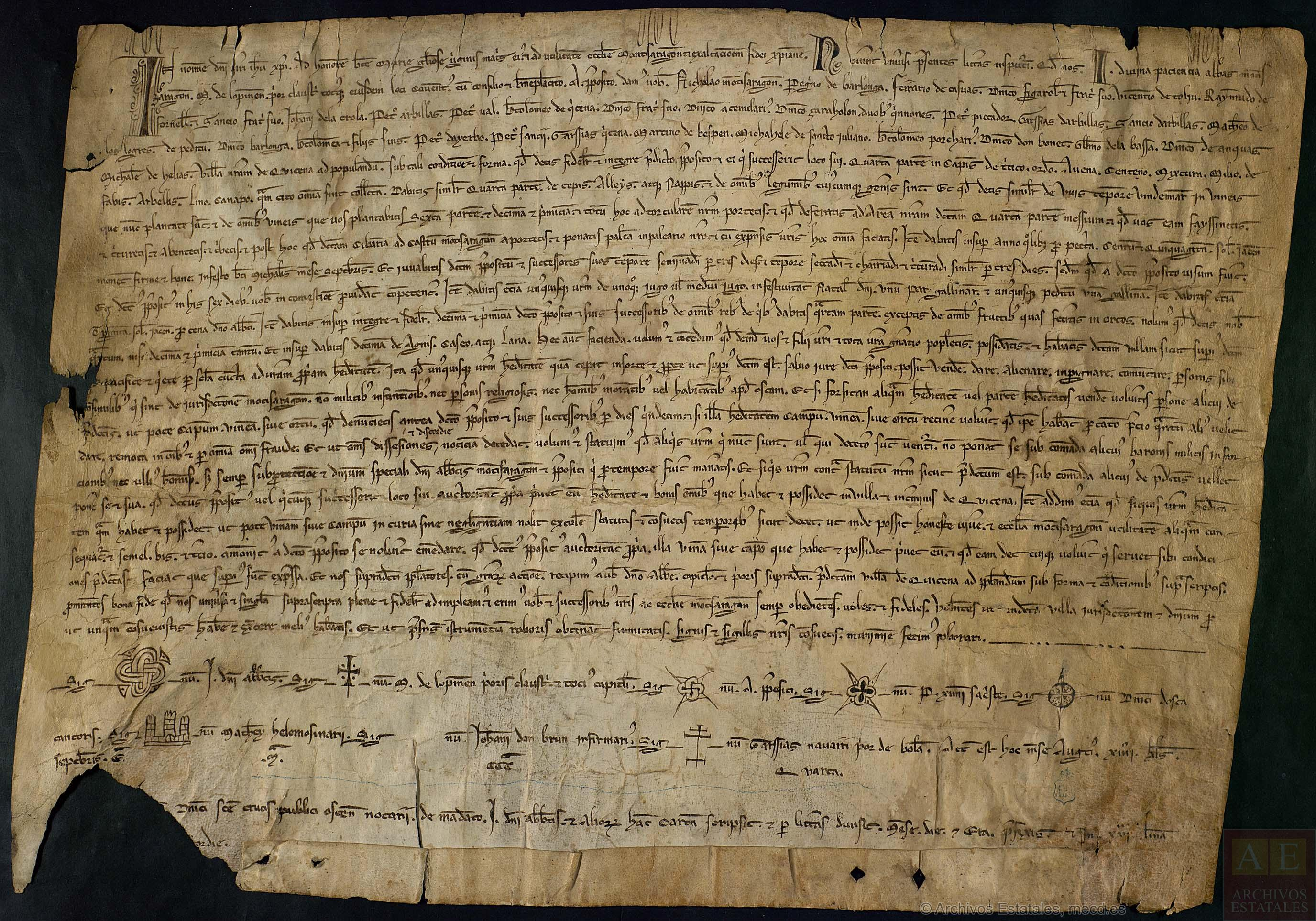 Clero-Secular_Regular (Provincia de Huesca, Pergaminos). sección Clero. Archivo Histórico Nacional